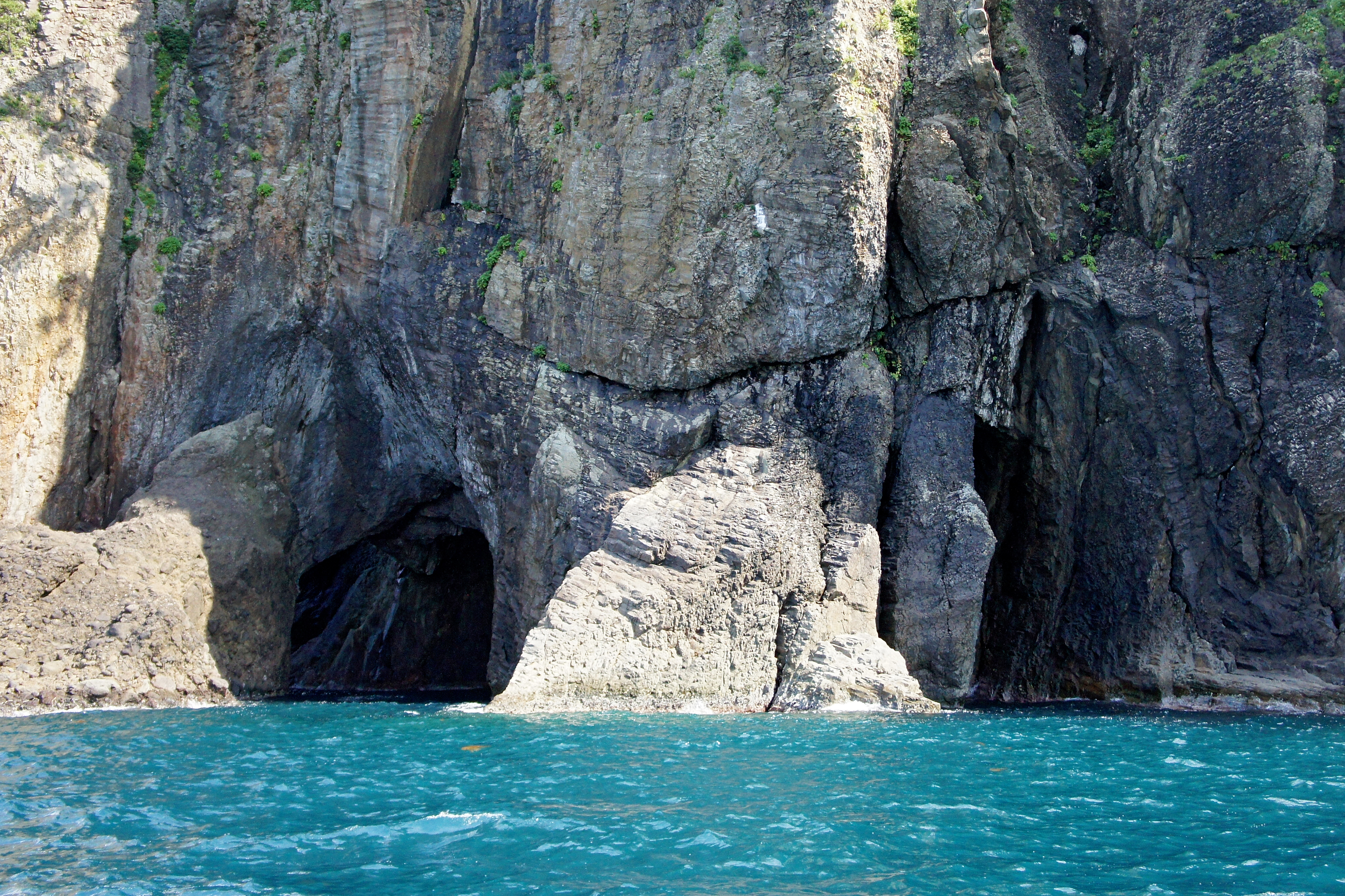 Shitaara-domon of Tajima mihonoura in Shinonsen, Hyogo prefecture, Japan